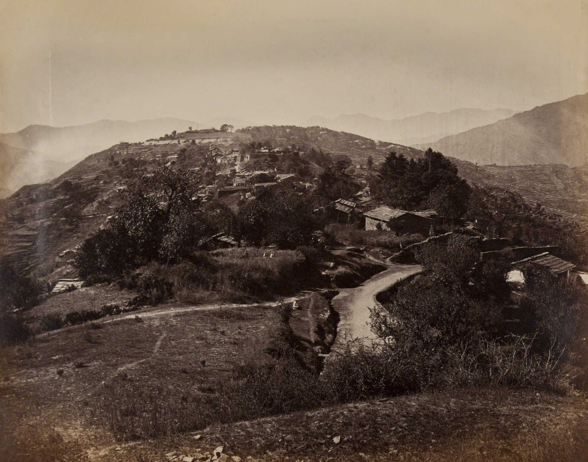 Title: View of Almorah Process: albumen print Credit Line: Gift of the Catherine and Ralph Benkaim Collection Accession Number: 2006.045.052a